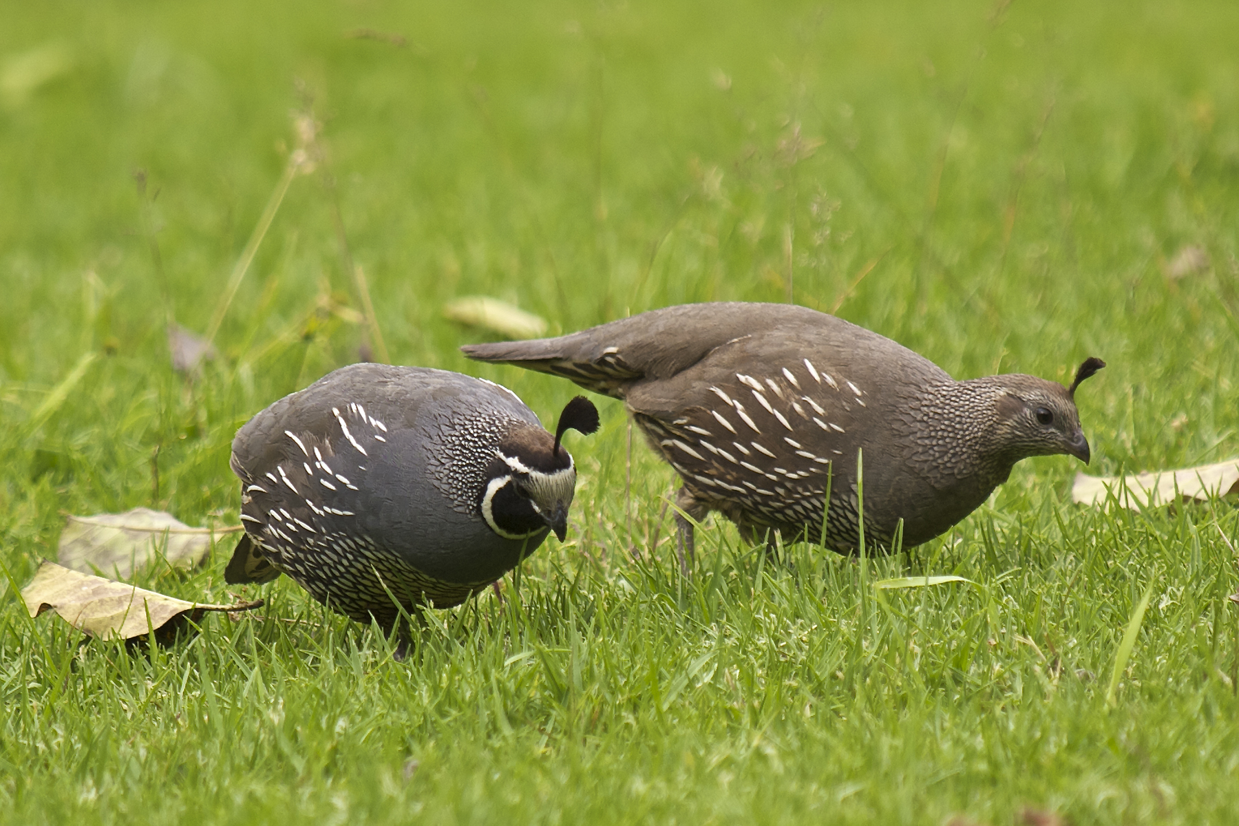 Pair of California Quails (Callipepla californica), Thames, New Zealand